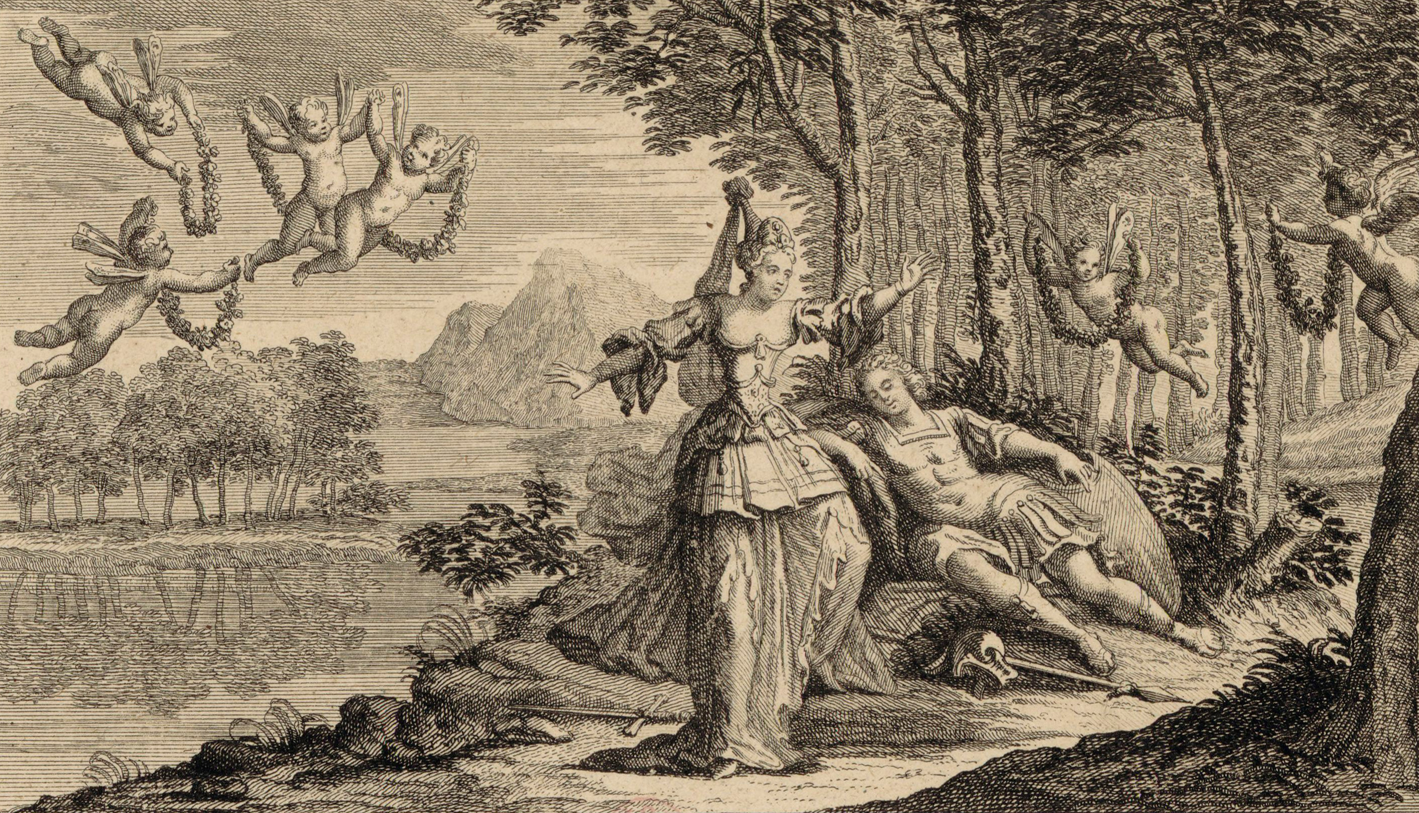 Lully - Armide - acte 2